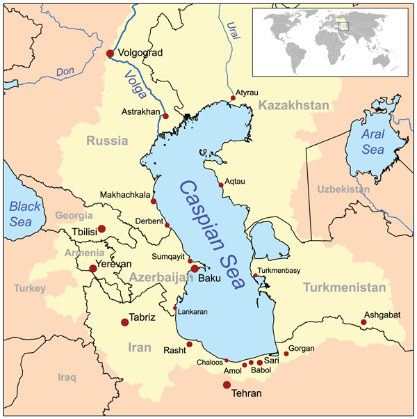 This is a map of the Caspian Sea including a small locator map. The drainage basin of the Caspian Sea is in yellow. The map is based on USGS and Digital Chart of the World data. Note the Aral Sea boundaries are circa 1960, not current boundaries.